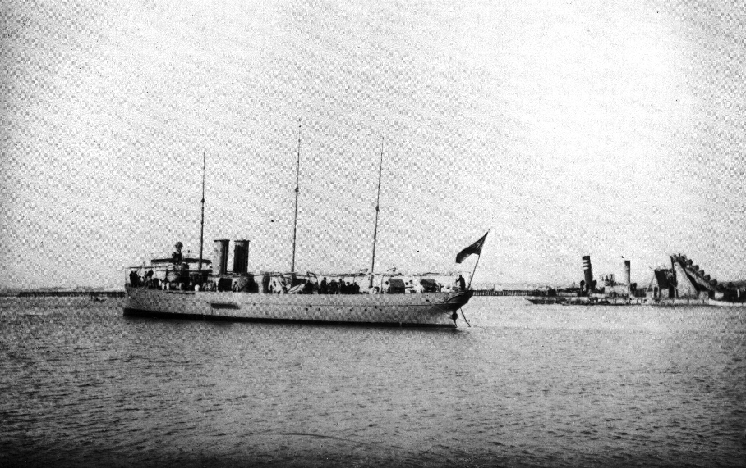 Spanish Navy torpedo gunboat Destructor, designed and built in the UK by Thomson and delivered to the Spanish Navy in 1887.